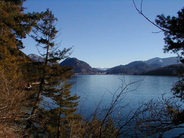 Lake Fuschl Photograph by Gakuro